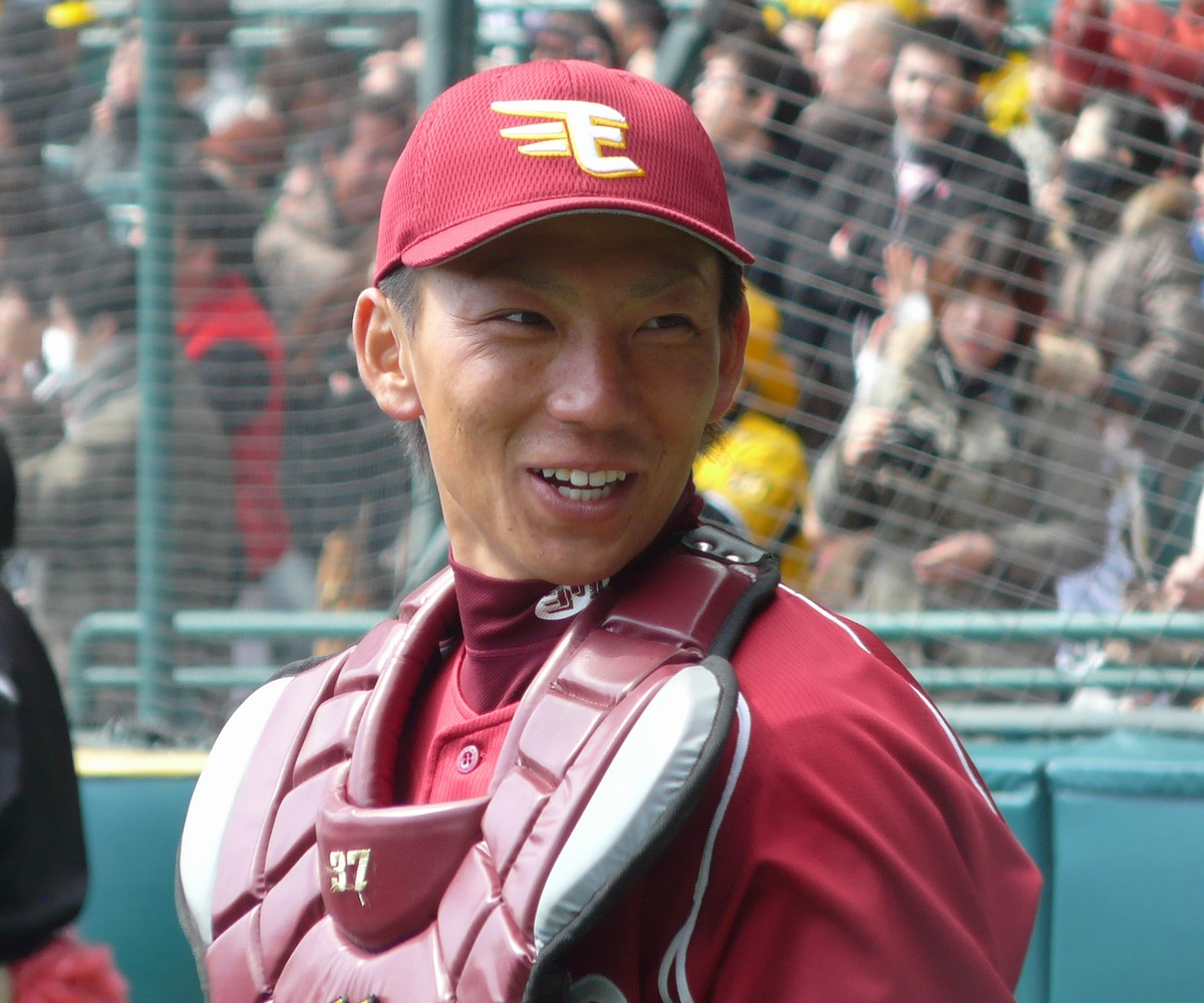 Motohiro Shima, catcher of the Tohoku Rakuten Golden Eagles, at Hanshin Koshien Stadium